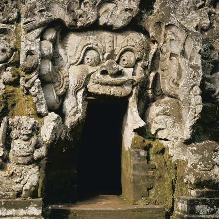 The Pura Goa Gajah or Elephant Cave